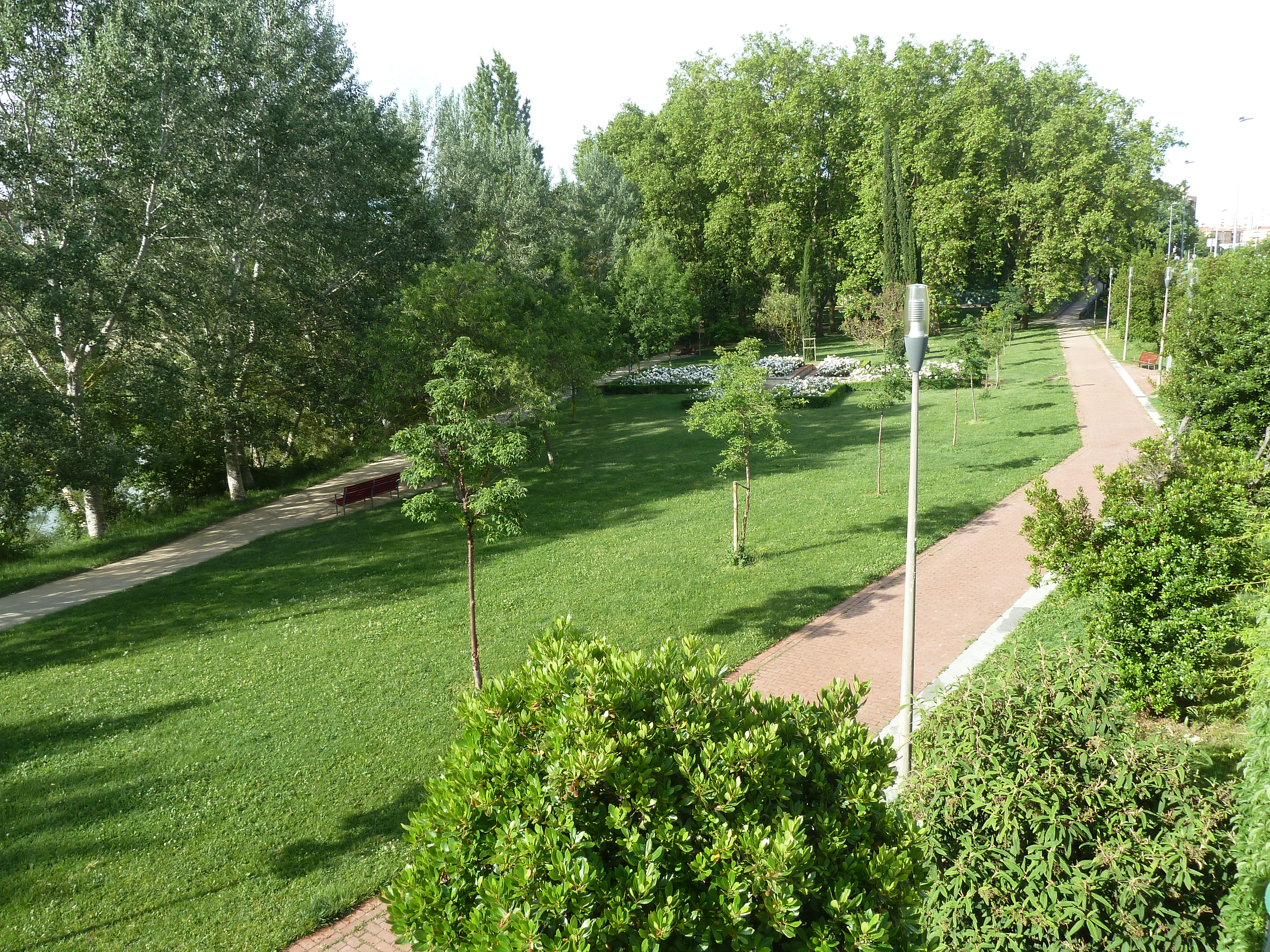 Here begins the stretch of San Jorge in the Pamplona Riverside Park. The name comes from the entrepreneur who built this garden next to a stately home.